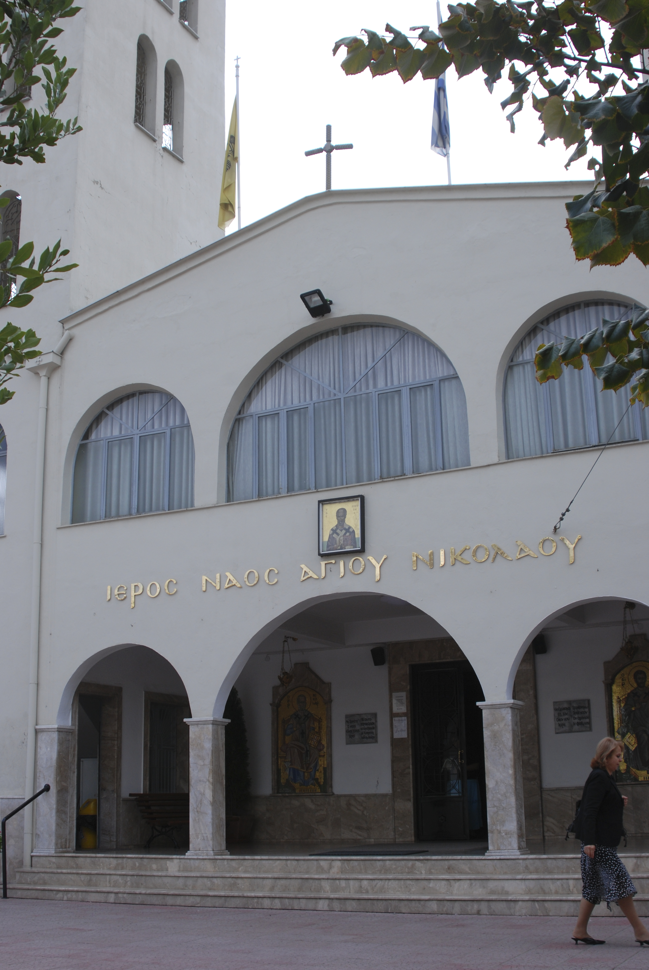 Church of Agios Nikolaos, Drama, Greece.